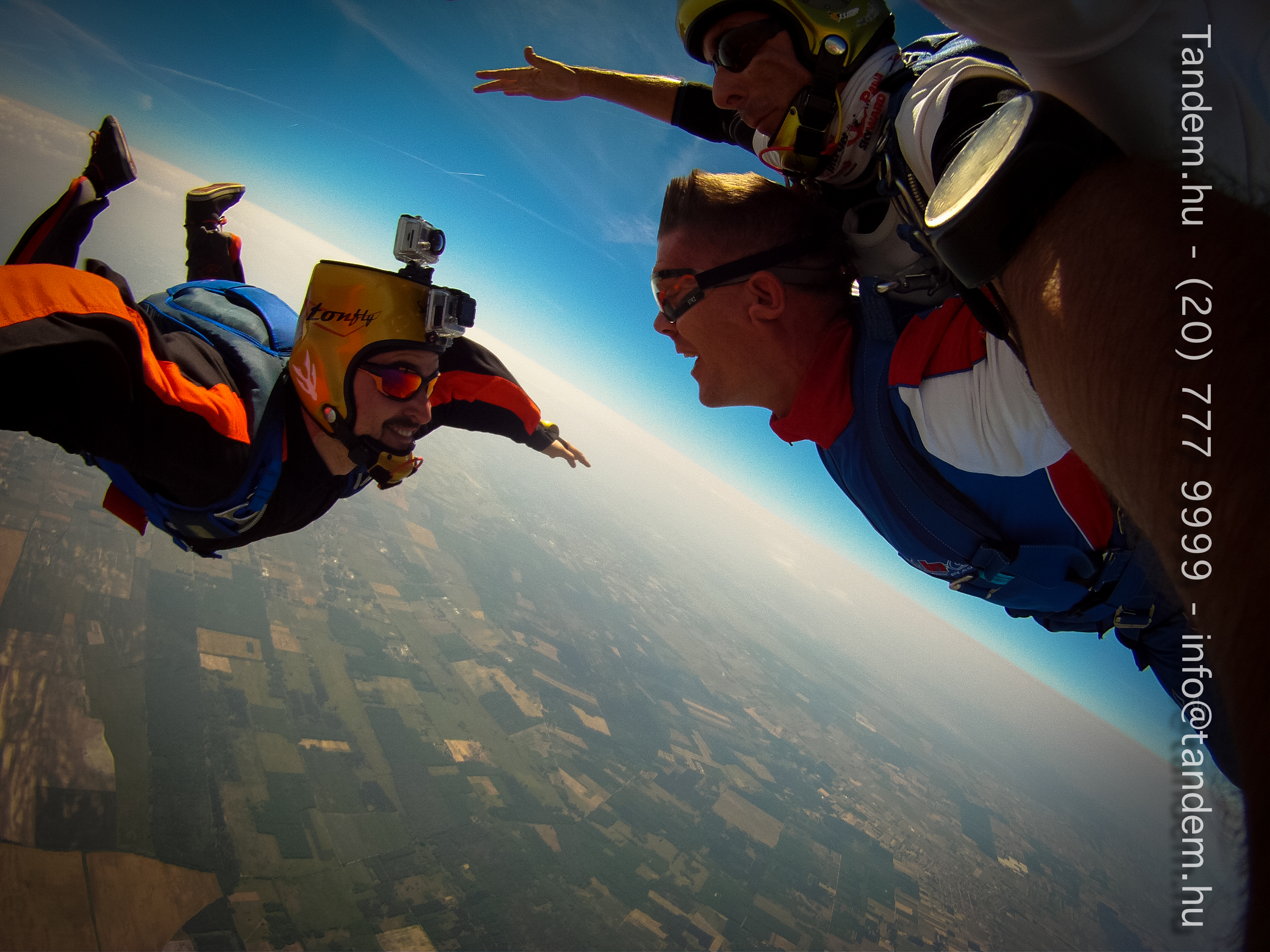 Skydiver cameraman is recording the tandemjump.